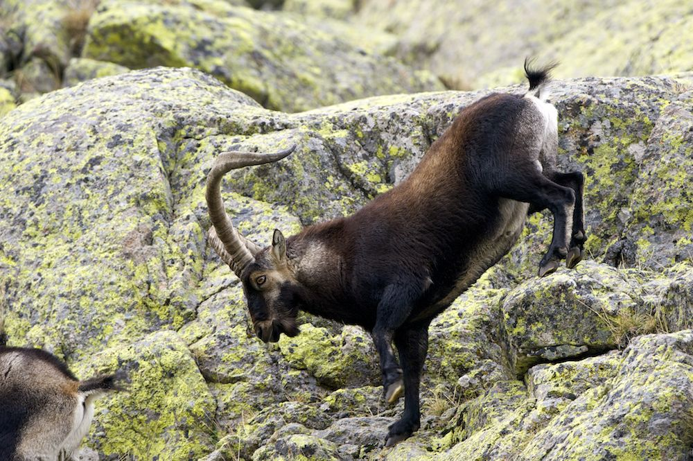 Spanish Ibex negotiating a steep slope